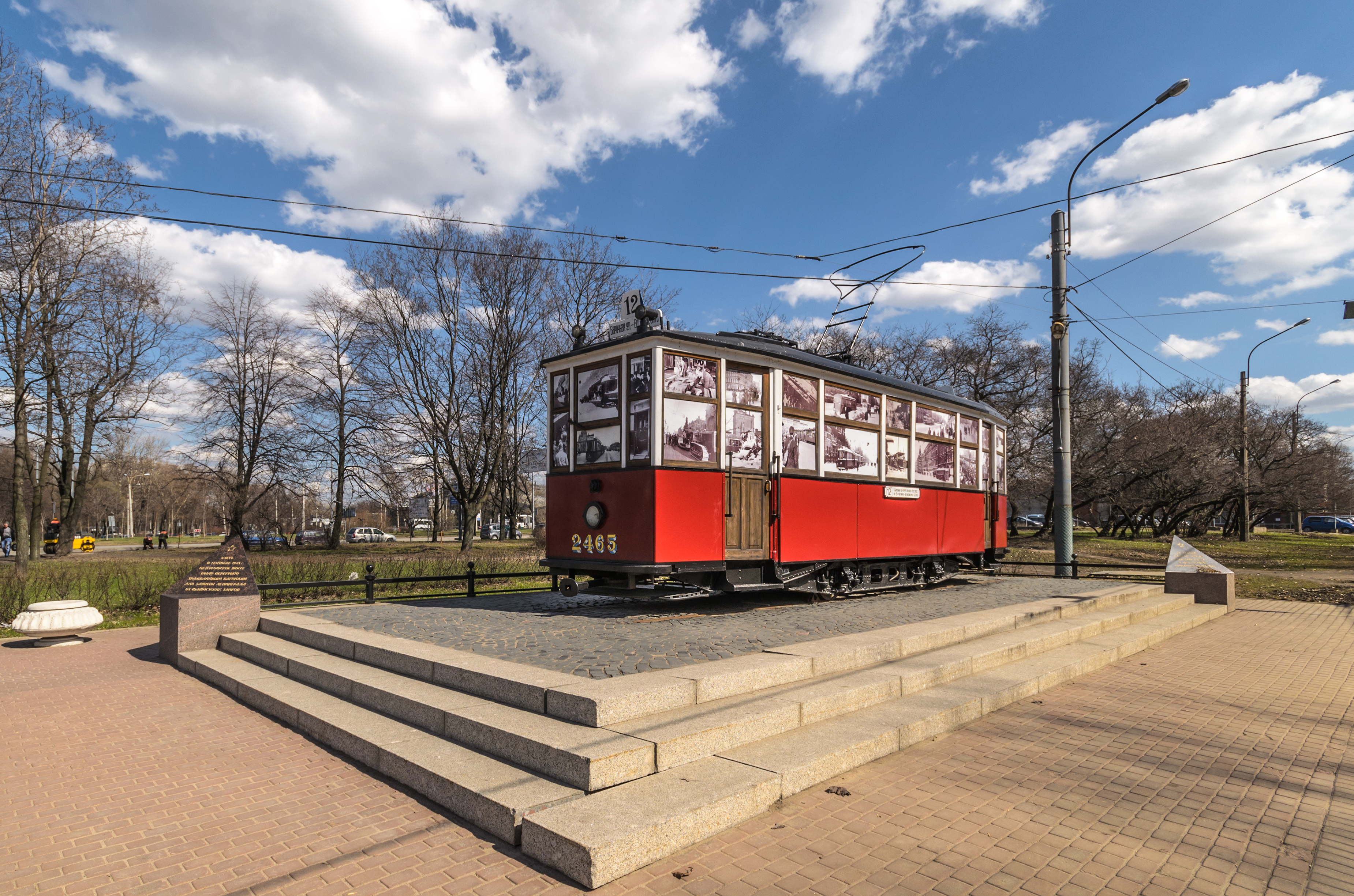 Blockade Tram monument on Stachek avenue in Saint Petersburg